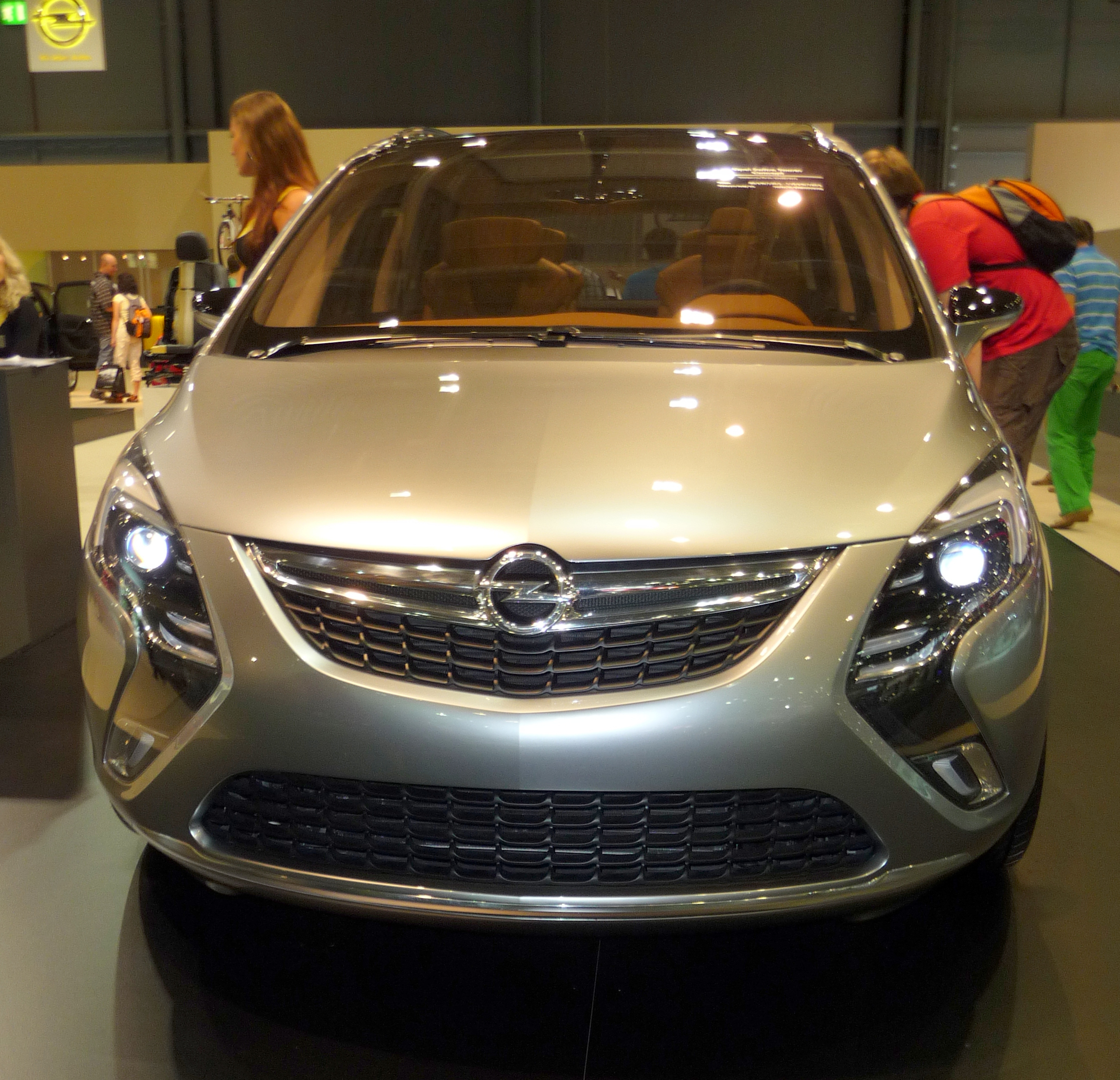 Opel Zafira Tourer Concept, Autosalon Brno 2011, The Brno Exhibition Grounds -10 -5 -3 -2 ◄ ► +2 +3 +5 +10